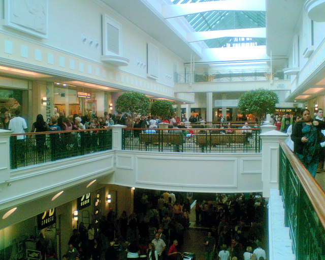 Saturday afternoon in Meadowhall shopping mall Most of the shops are now open after the summer flood clean up.